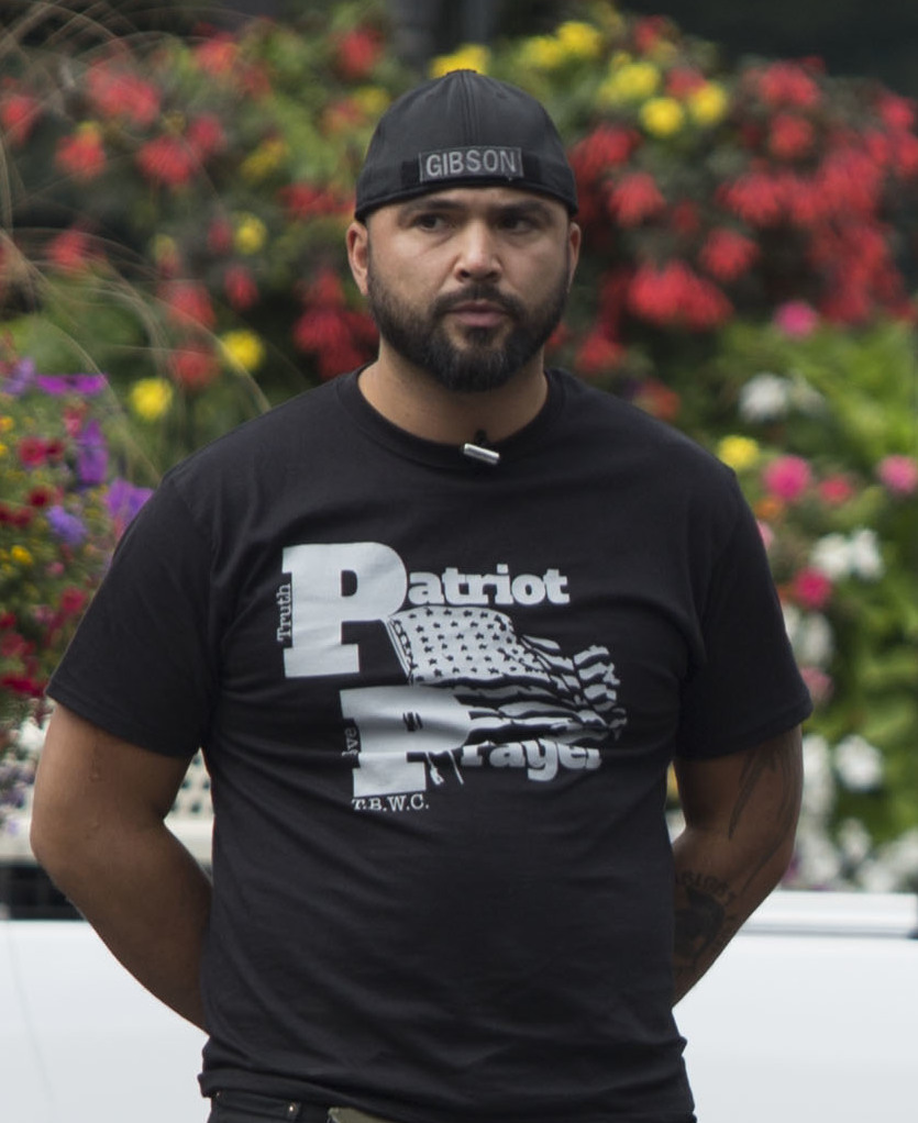 August 13, 2017 Patriot Prayer and Solidarity Against Hate demonstrations in Seattle